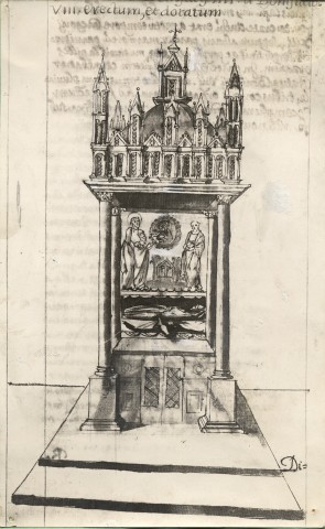 Watercolour drawing of the small shrine (sacellum) of Pope Boniface IV, and tomb of Pope Boniface VIII in old St. Peter's Basilica.